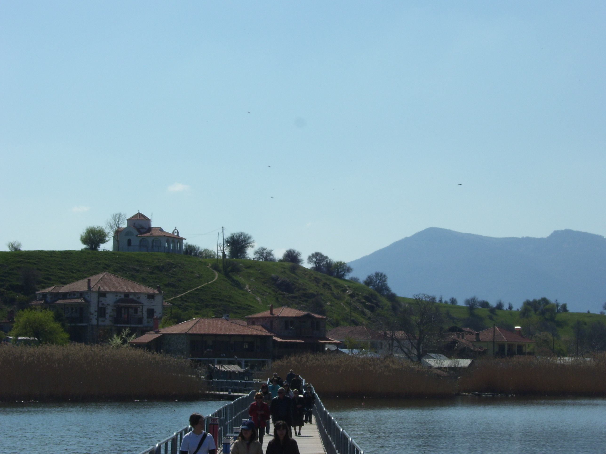 Village of Agios Achillios in Mikri Prespa Lake, Greece.